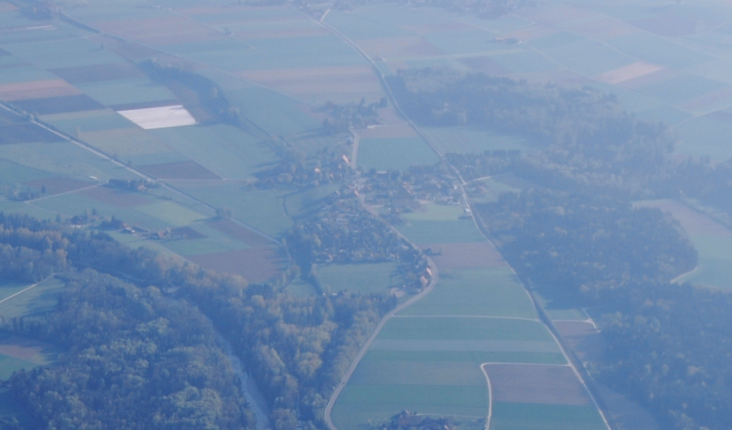 Schalunen, canton of Bern, Switzerland